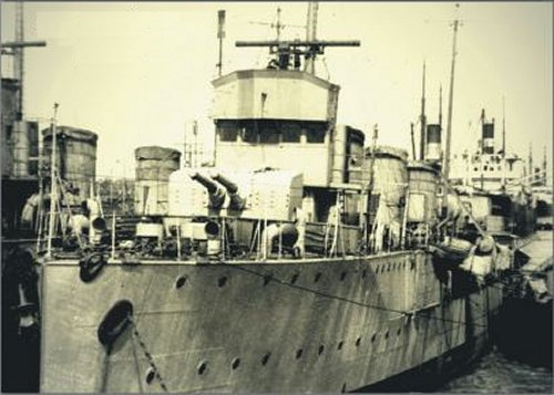 Royal Romanian scout cruiser Mărăşti.